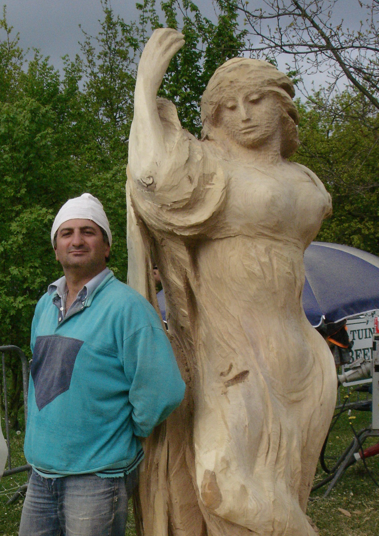 Hayk Tokmajyan, works